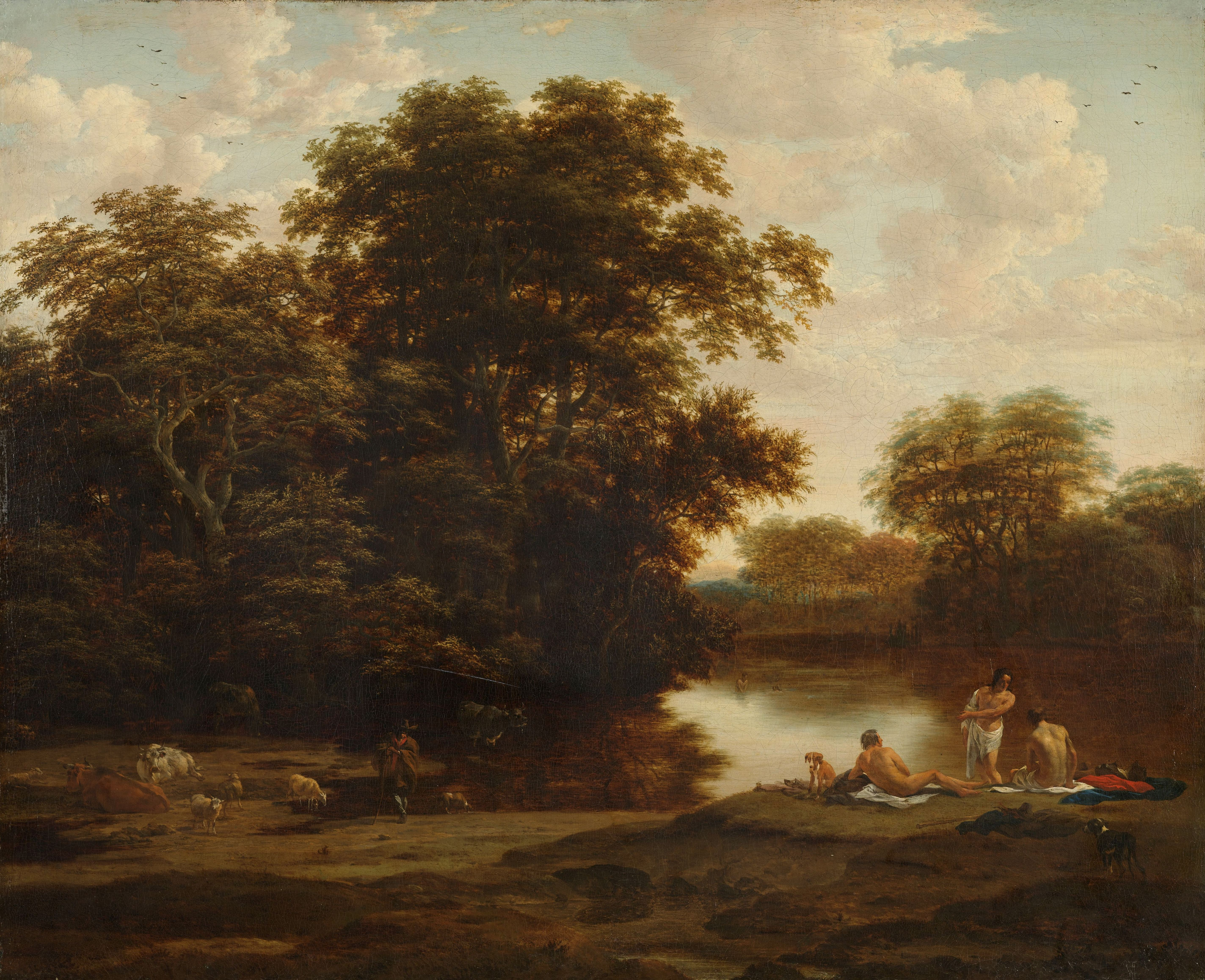 Wooded landscape with bathers. By the side of a lake a number of men (shepherds) are drying themselves after bathing. Some people are still in the water. To the left a herder with his cattle.